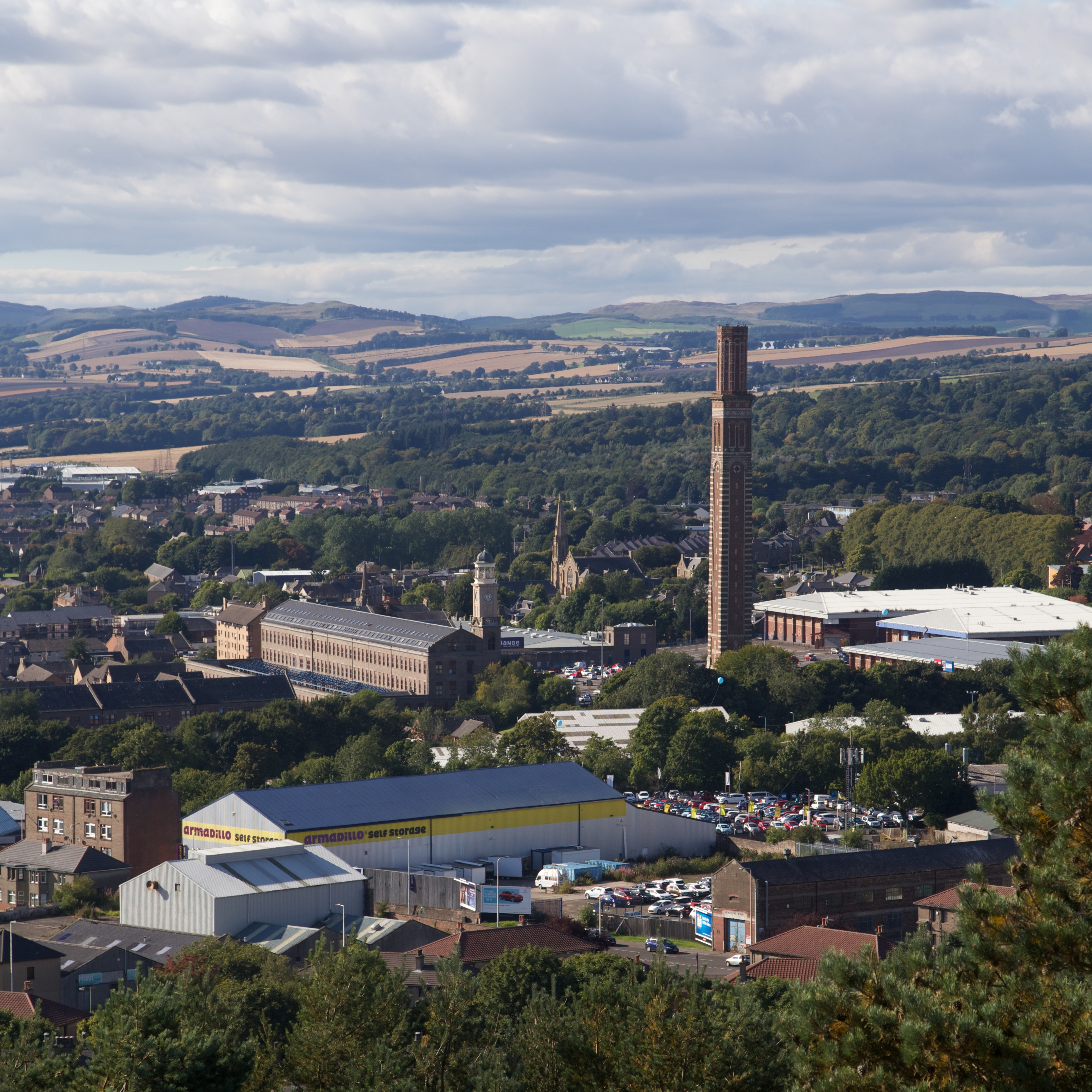 Dundee, Methven Street, Camperdown Works, Boiler House Wikidata has entry Q17801753 with data related to this item.